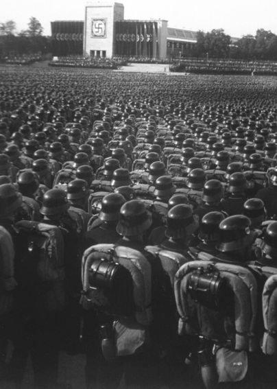 Overview of the mass roll call of SA, SS, and NSKK troops. Nuremberg, November 9, 1935. (National Archives Gift Collection) NARA FILE #: 200-GR-12 WAR & CONFLICT BOOK #: 983